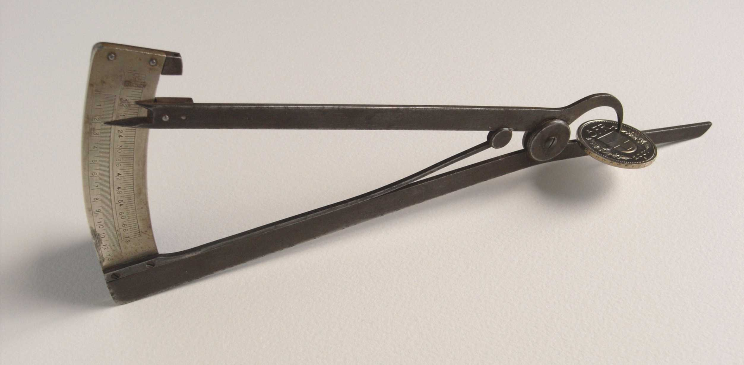 dixieme gauge to use by a coin